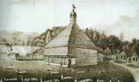 Tatar mosque and graveyard in the Lukiskes suburb of Vulnius, Lithuania.